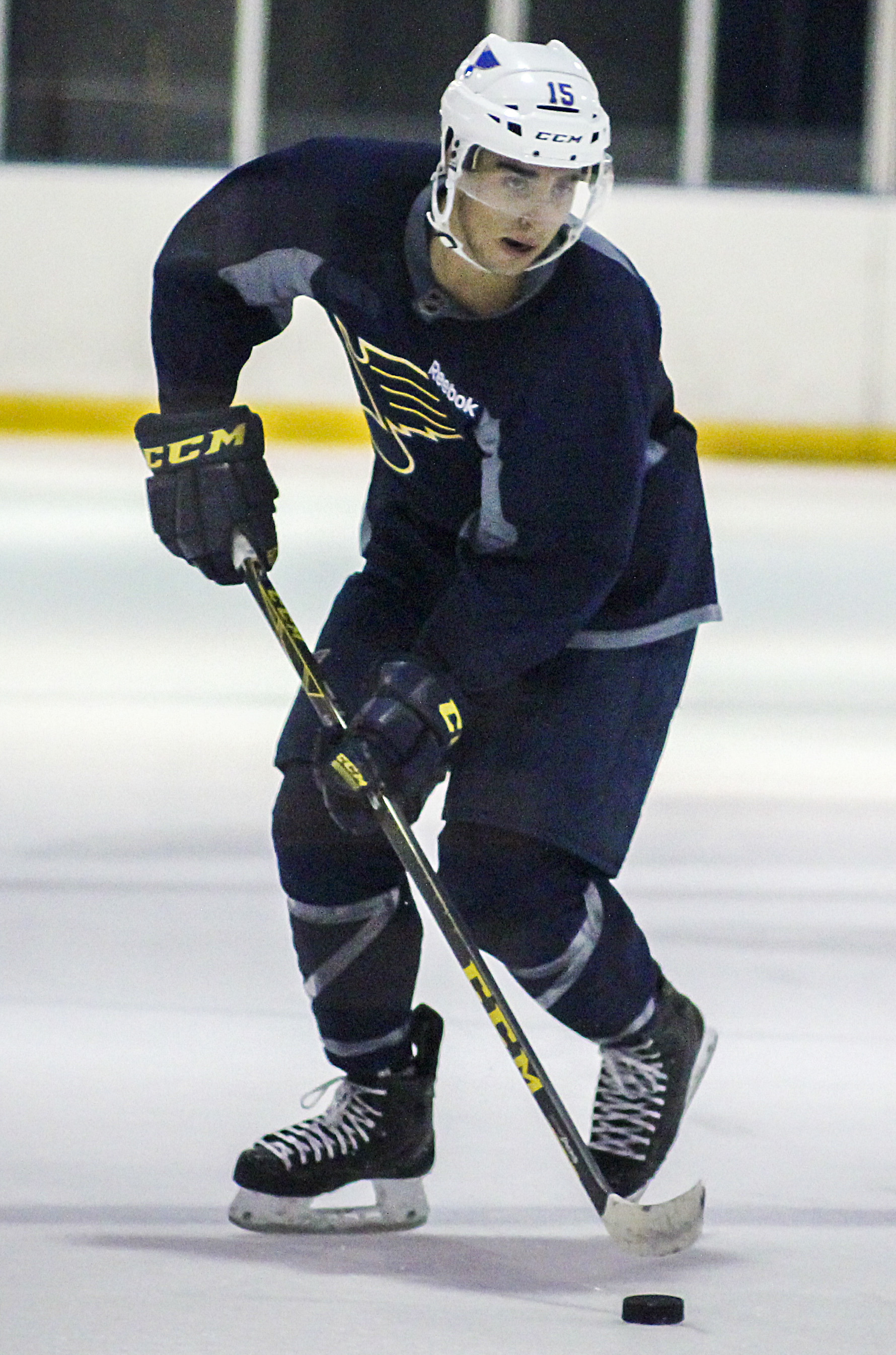 Robby Fabbri of the St.louis blues